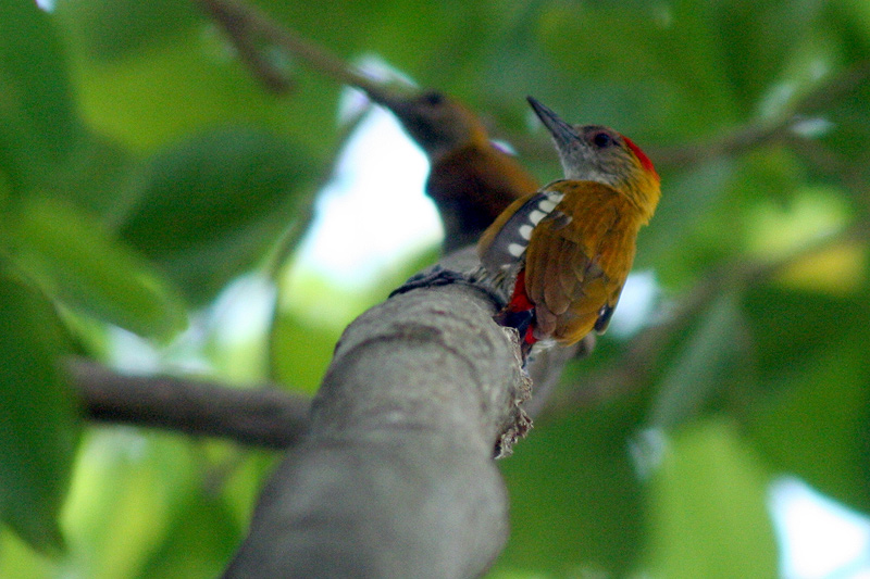 Red-Rumped Woodpecker (Veniliornis kirkii) - Hacienda La Zuliana, Campo Boscán, Zulia. Venezuela. 2009-09-06